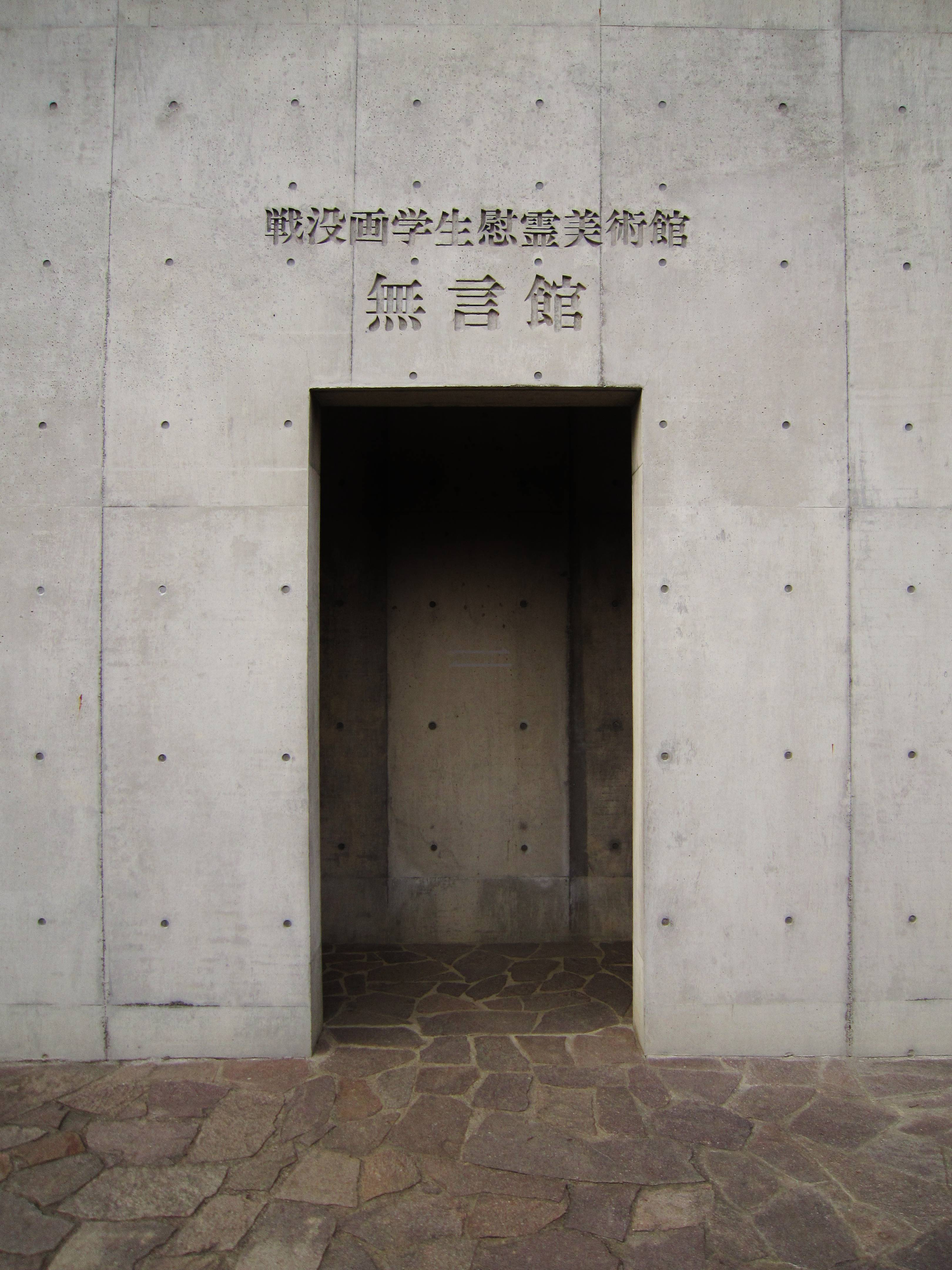 Mugonkan.